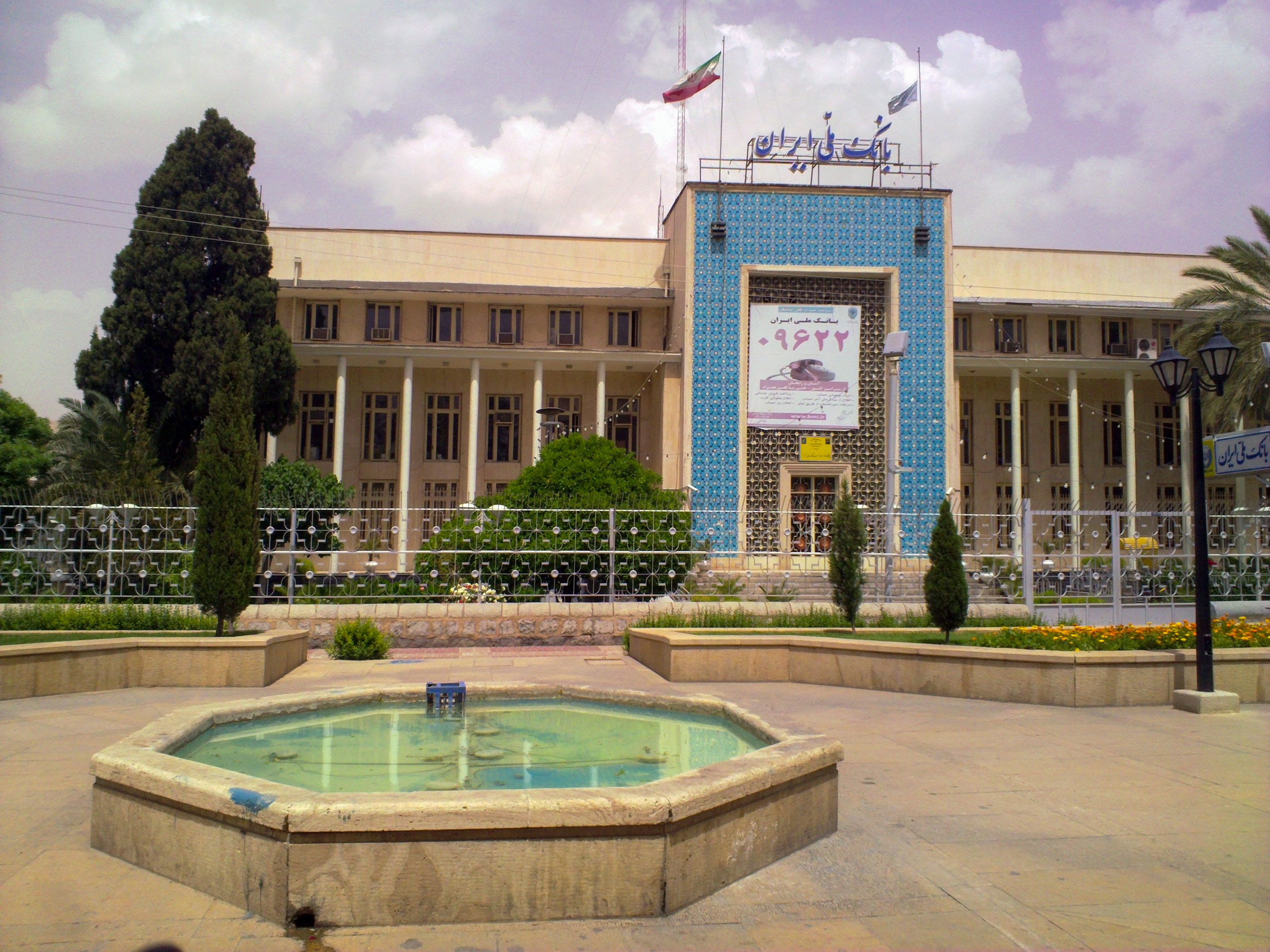 Shiraz (Listeni/ʃiːˈrɑːz/; Persian: شیراز, Šīrāz, Persian pronunciation: , About this sound pronunciation (help·info)) is the sixth-most-populous city of Iran and the capital of Fars Province (Old Persian as Pârsâ). At the 2011 census, the population of the city was 1,700,665 and its built-up area with "Shahr-e Jadid-e Sadra" (Sadra New Town) was home to 1,500,644 inhabitants. Shiraz is located in the southwest of Iran on the "Roodkhaneye Khoshk" (The Dry River) seasonal river. It has a moderate climate and has been a regional trade center for over a thousand years. Shiraz is one of the oldest cities of ancient Persia.